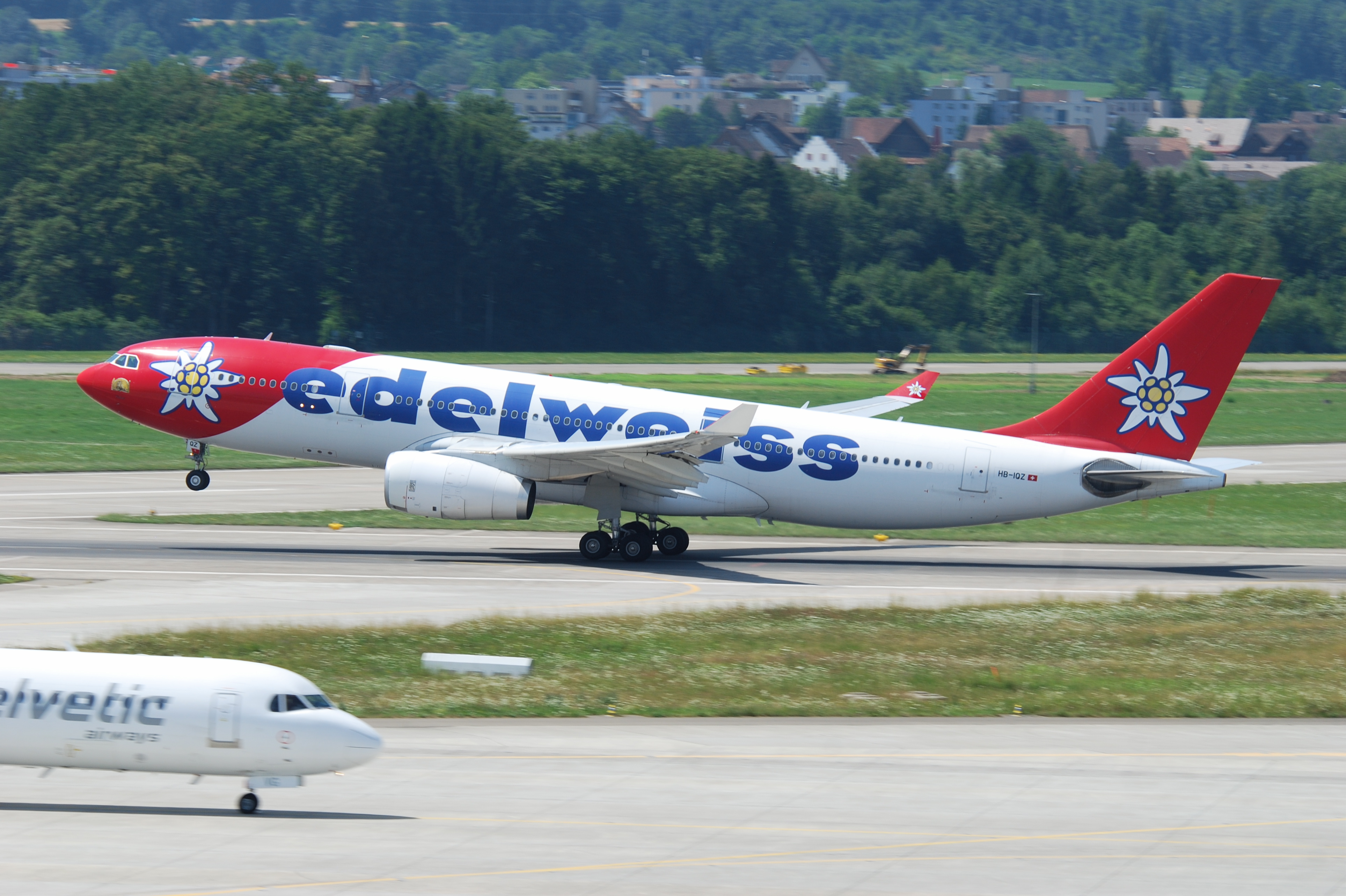 Departing as WK 034 to Punta Cana...